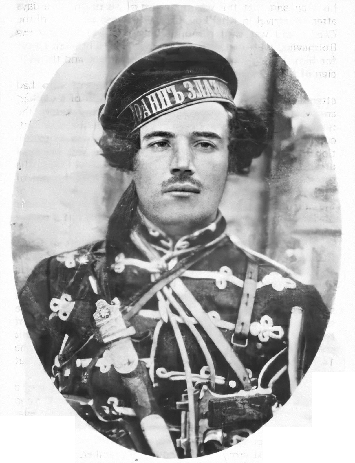 Fedor Shus, ukranian anarchist